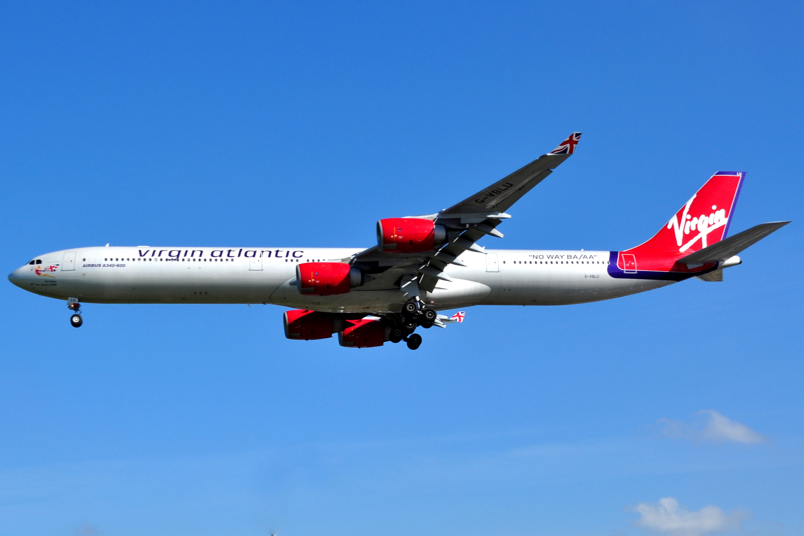 Airbus A340-642 - Virgin Atlantic Airways (reg:G-VBLU)